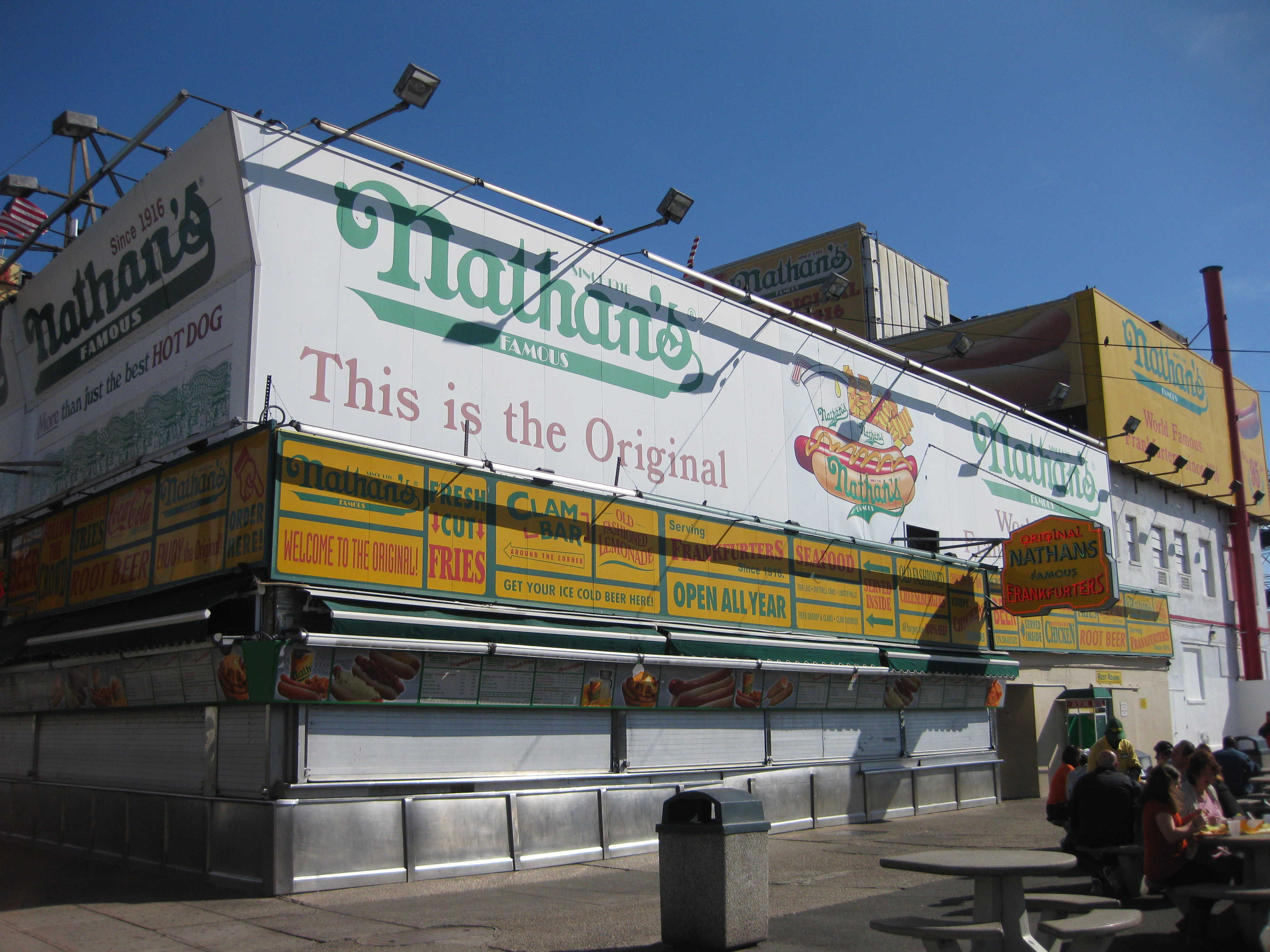 Coney Island, New York